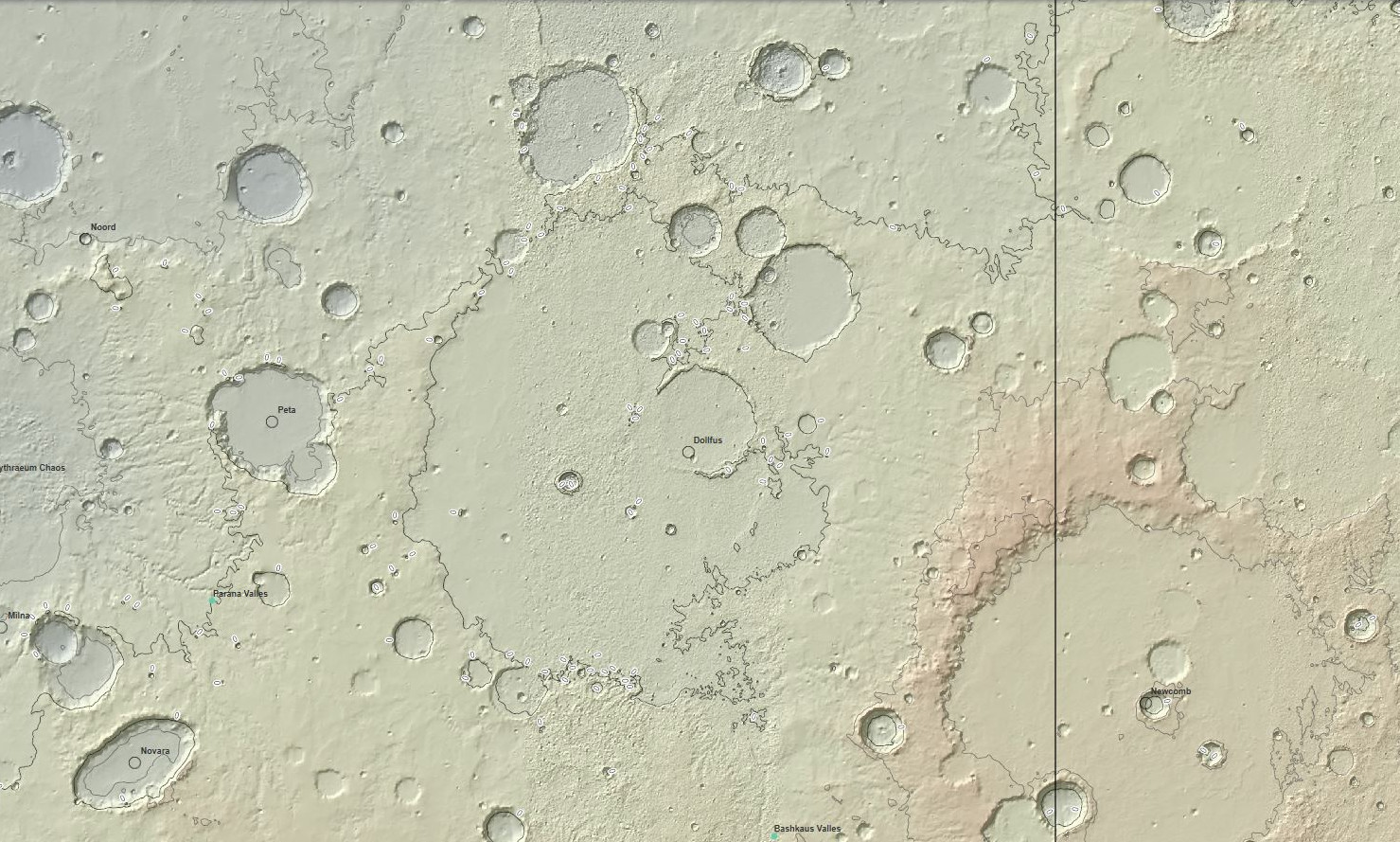 A topographic map created using Mars Orbiter Laser Altimeter (MOLA) data. This map show the relative elevation in 100 meter elevation contour lines (dashed) and 500 meter elevation contour lines (bold) with a total elevation uncertainty of +/- 6 meters.